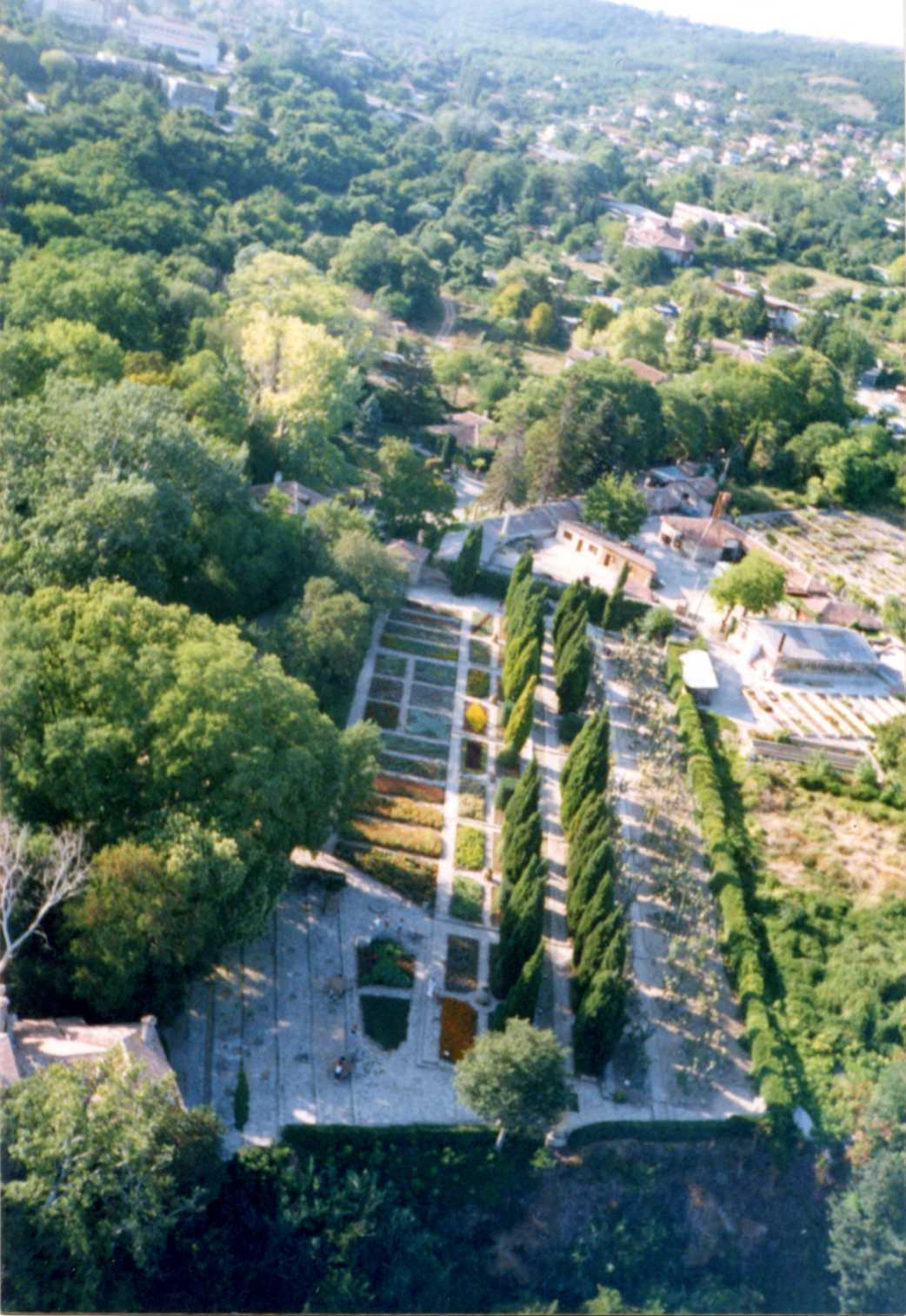 Aerial shot of Balchik, Bulgaria